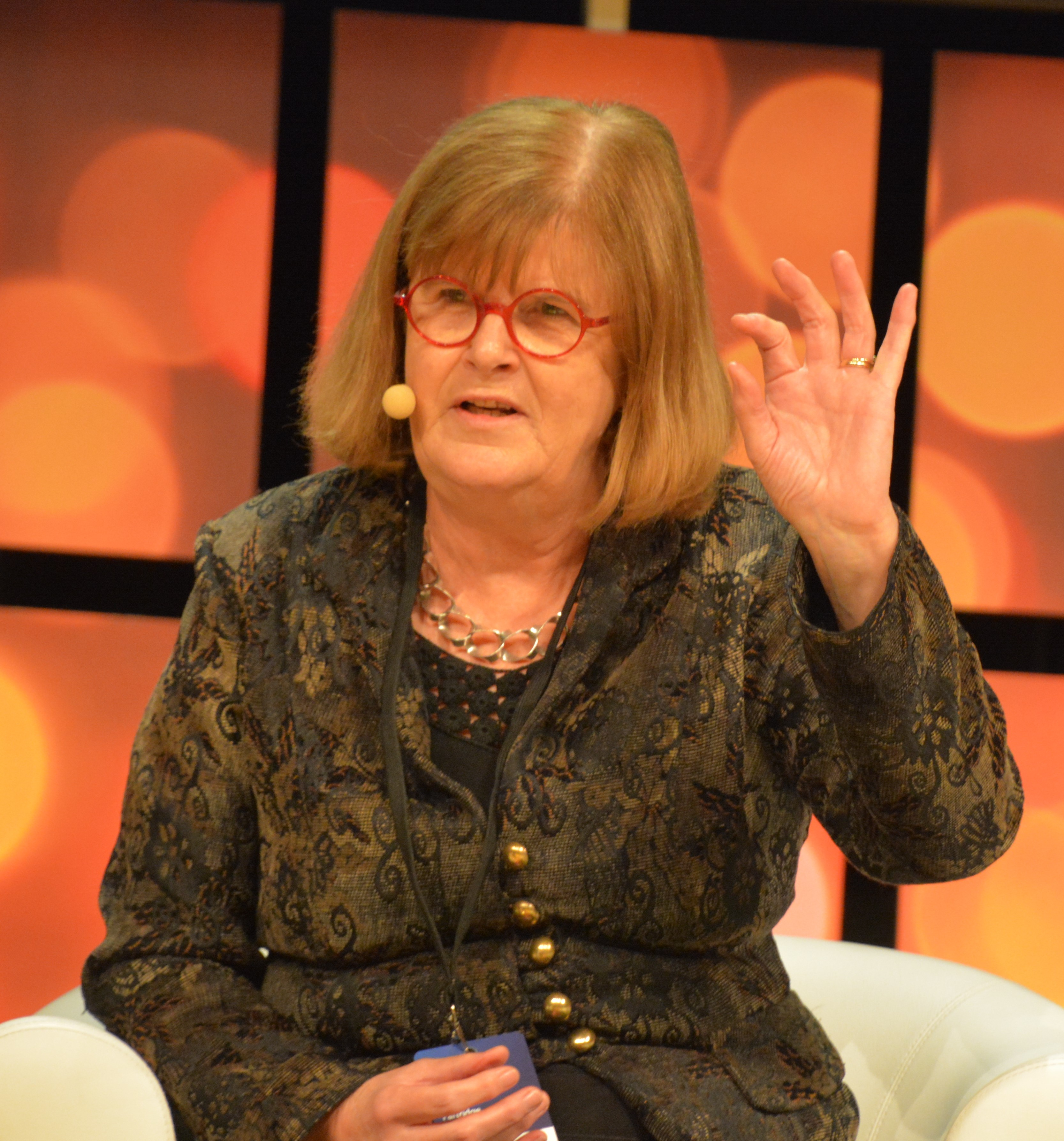 Linda Partridge, British researcher in aging